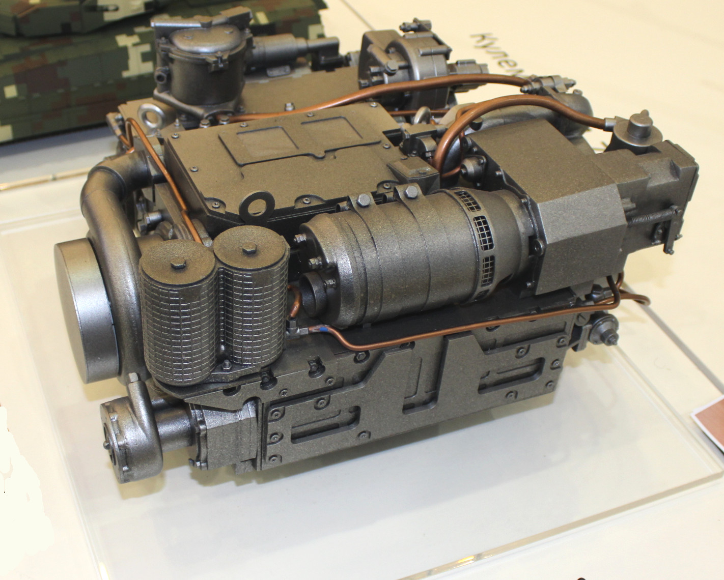 3TD opposed-pistion diesel engine scaled model. Photo made at the Zbroya ta Bezpeka 2017 exhibition. The 3TD engine is derived from the 5TD diesel engine and shares a lot of common components.